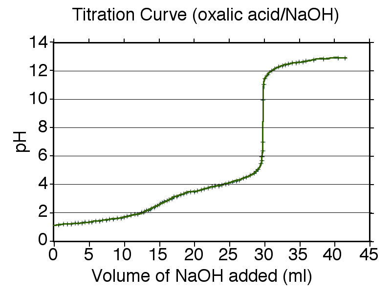 A version of Image:Oxalic acid-NaOH titration.png with some grid lines on the graph. Titration of 01 M oxalic acid with 1.0 M NaOH. Laboratory data collected by User:Atropos235. Data plot modified by User:JWSchmidt.